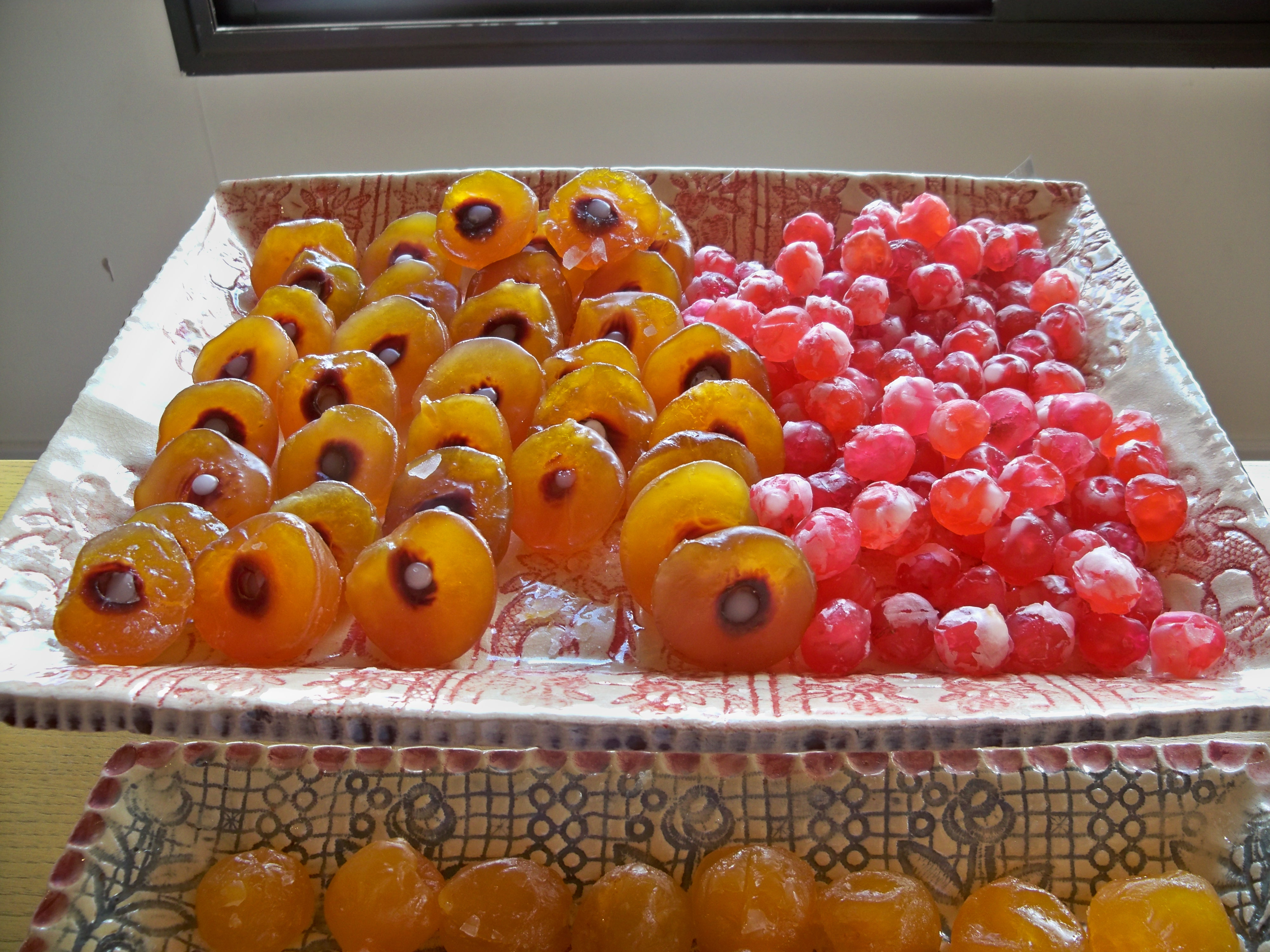 cherries and abricots as candied fruits